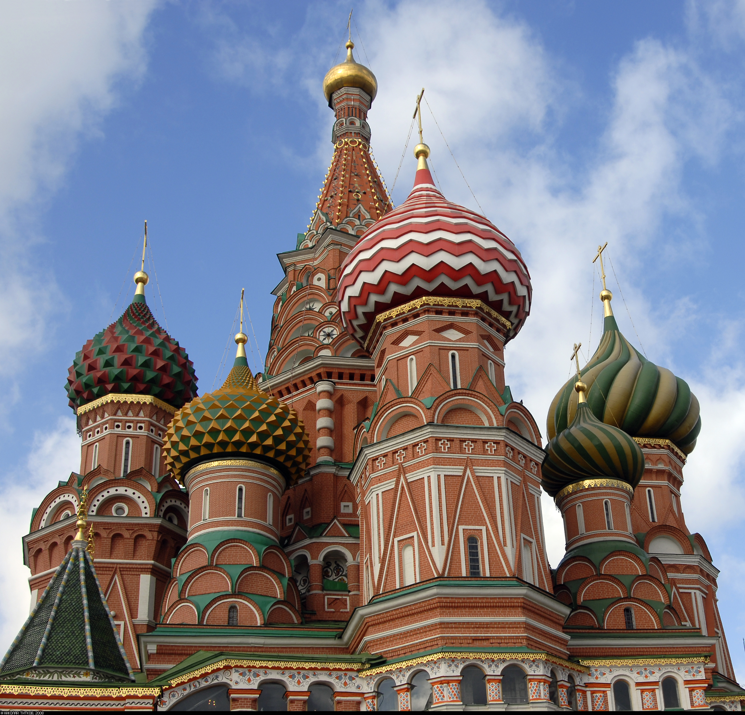 Blessed Saint Vasilii (Basil), Moscow Wonderworker, was born in December 1468 on the portico of the Elokhovsk church in honour of the Vladimir Icon of the MostHoly Mother of God, outside Moscow.